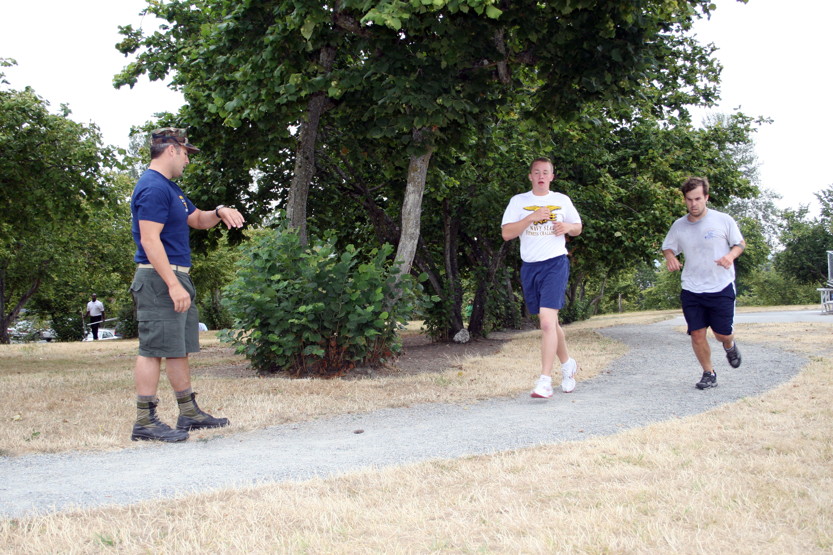 BELLEVUE, Wash. (Aug. 4, 2009) Chief Special Warfare Operator (SEAL) Jason Torey keeps time as KNDD radio station host Andrew Harms, right, runs 1.5 miles to practice for the Navy SEAL Fitness Challenge at Surrey Downs Park. The Navy SEAL Fitness Challenge, scheduled for Aug. 8, is a free event designed to promote fitness among Americans. (U.S. Navy photo by Mass Communication Specialist 2nd Class Michelle Kapica/Released)